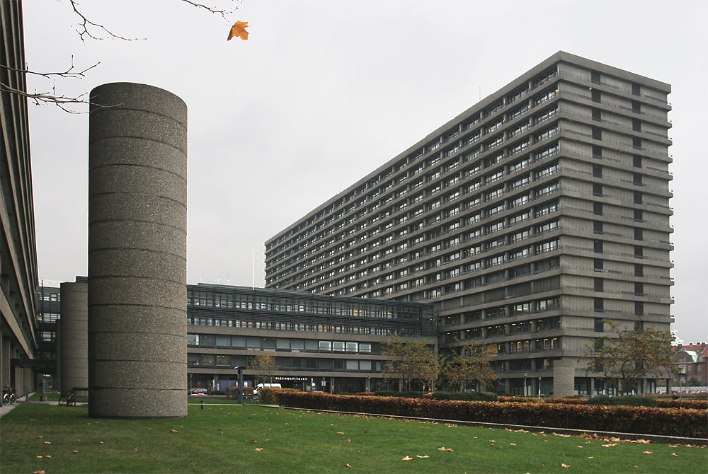 Rigshospitalet in Copenhagen, Denmark. Taken November 12, 2005, by Henrik Jessen. The largest hospital in Denmark. The picture shows the main entrance and the 16 storeyed central building completed in the 1970'ies.